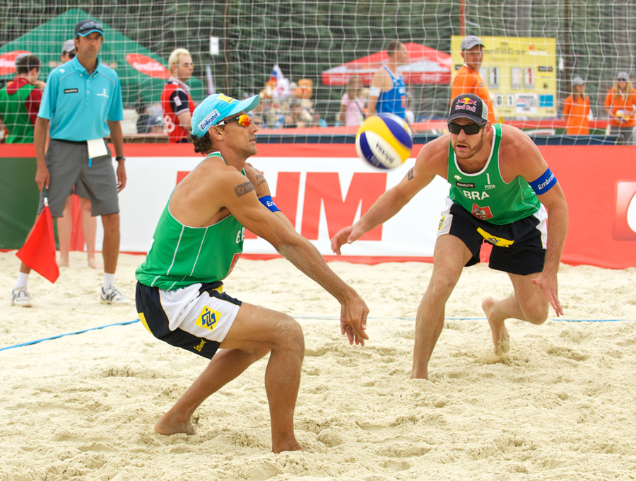 Grand Slam Moscow 2012